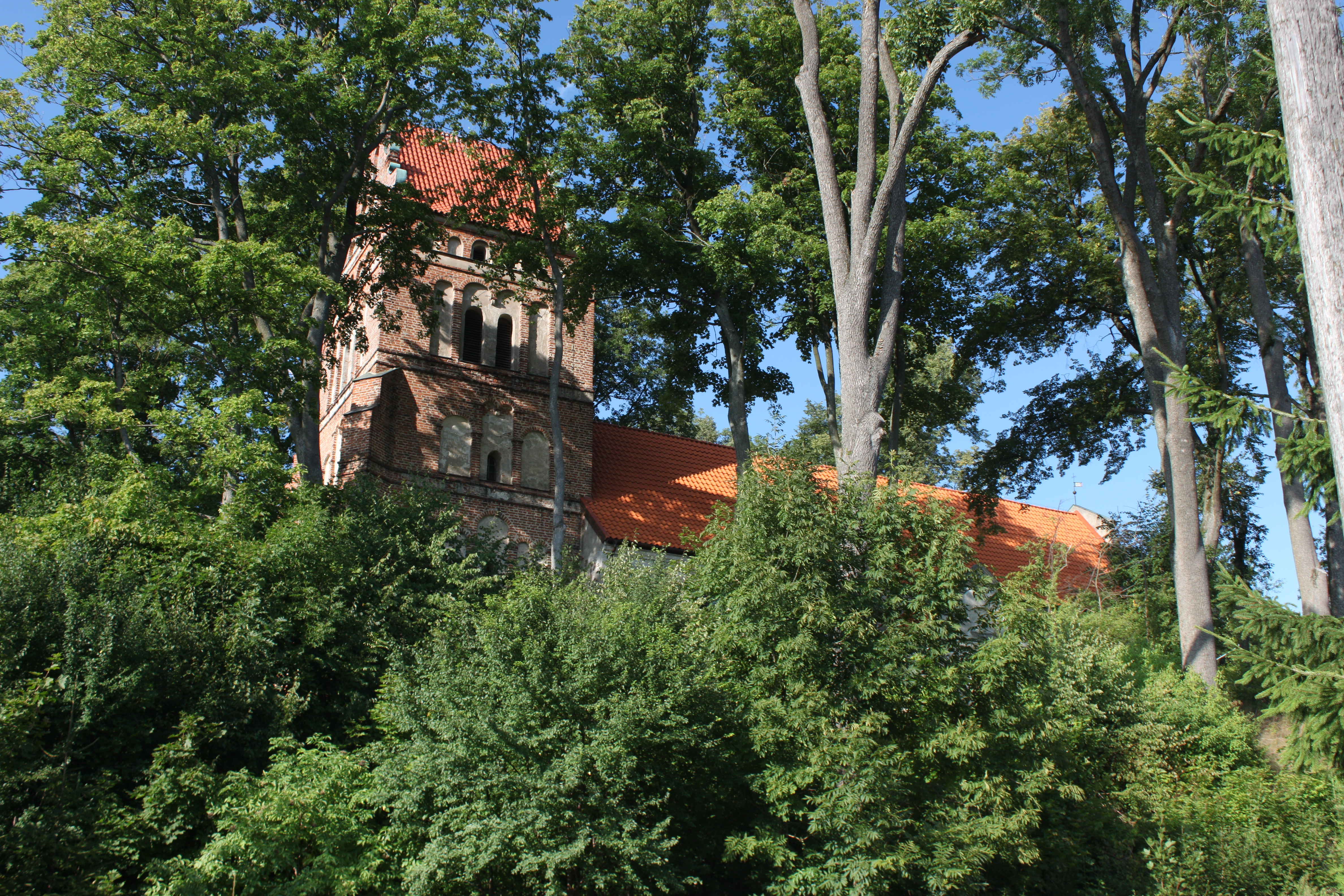 Lutheran church in Dźwierzuty and cemetery nearby.